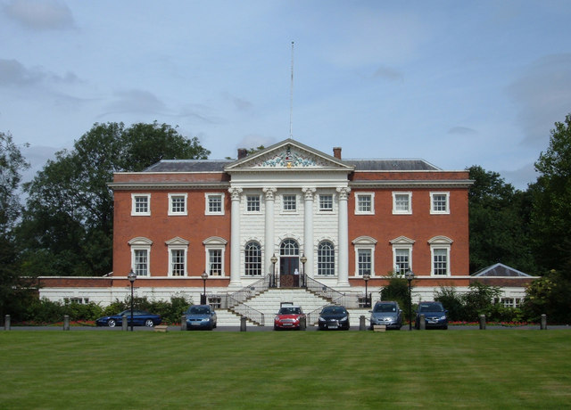 Photograph